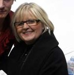 Nathalie PECHALAT and Fabian BOURZAT at the boards with their coachs Muriel Zazoui and Romain Haguenauer at the 2007-2008 Grand Prix Final